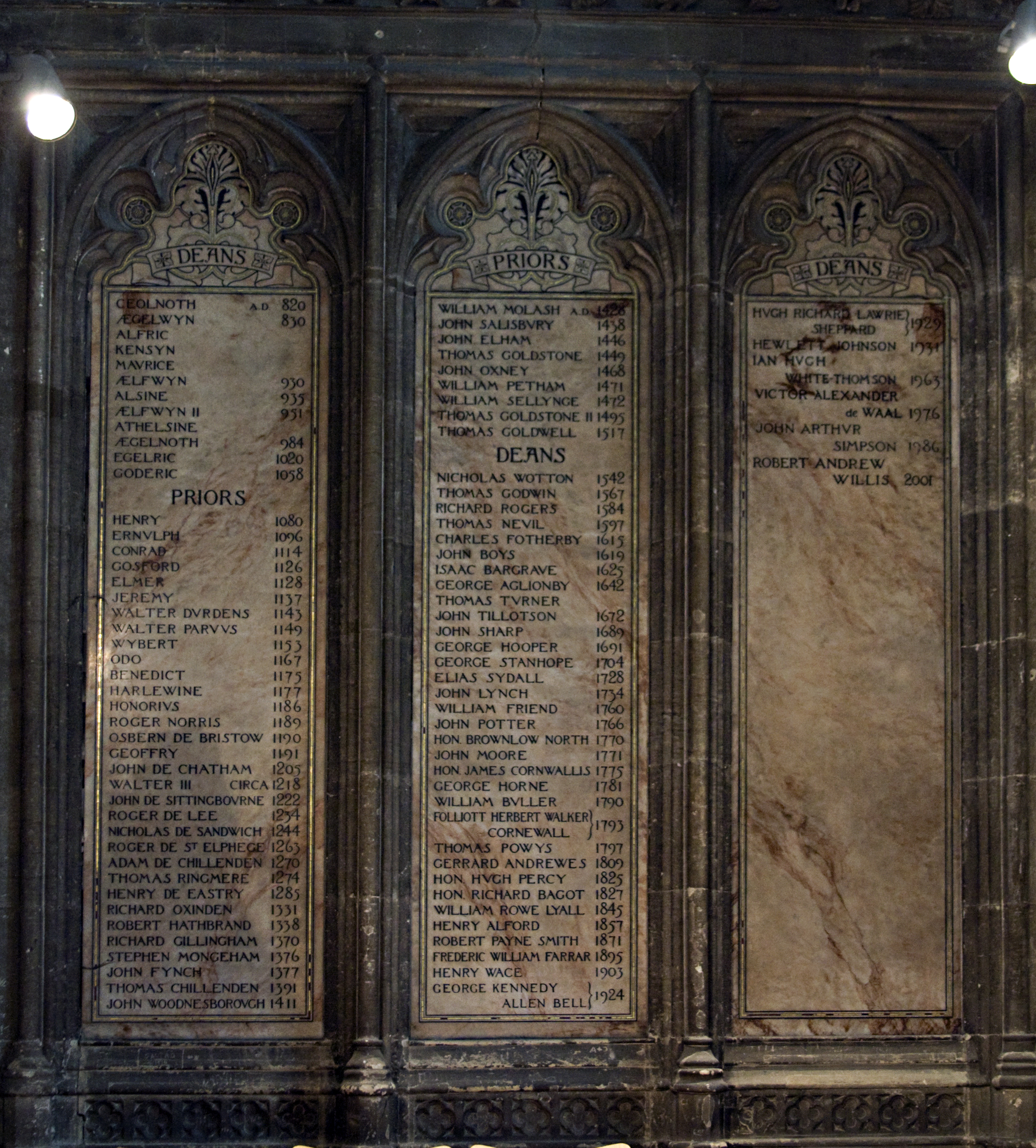 Panels inscribed with lists of the Deans and Priors of Canterbury Cathedral in Canterbury Cathedral